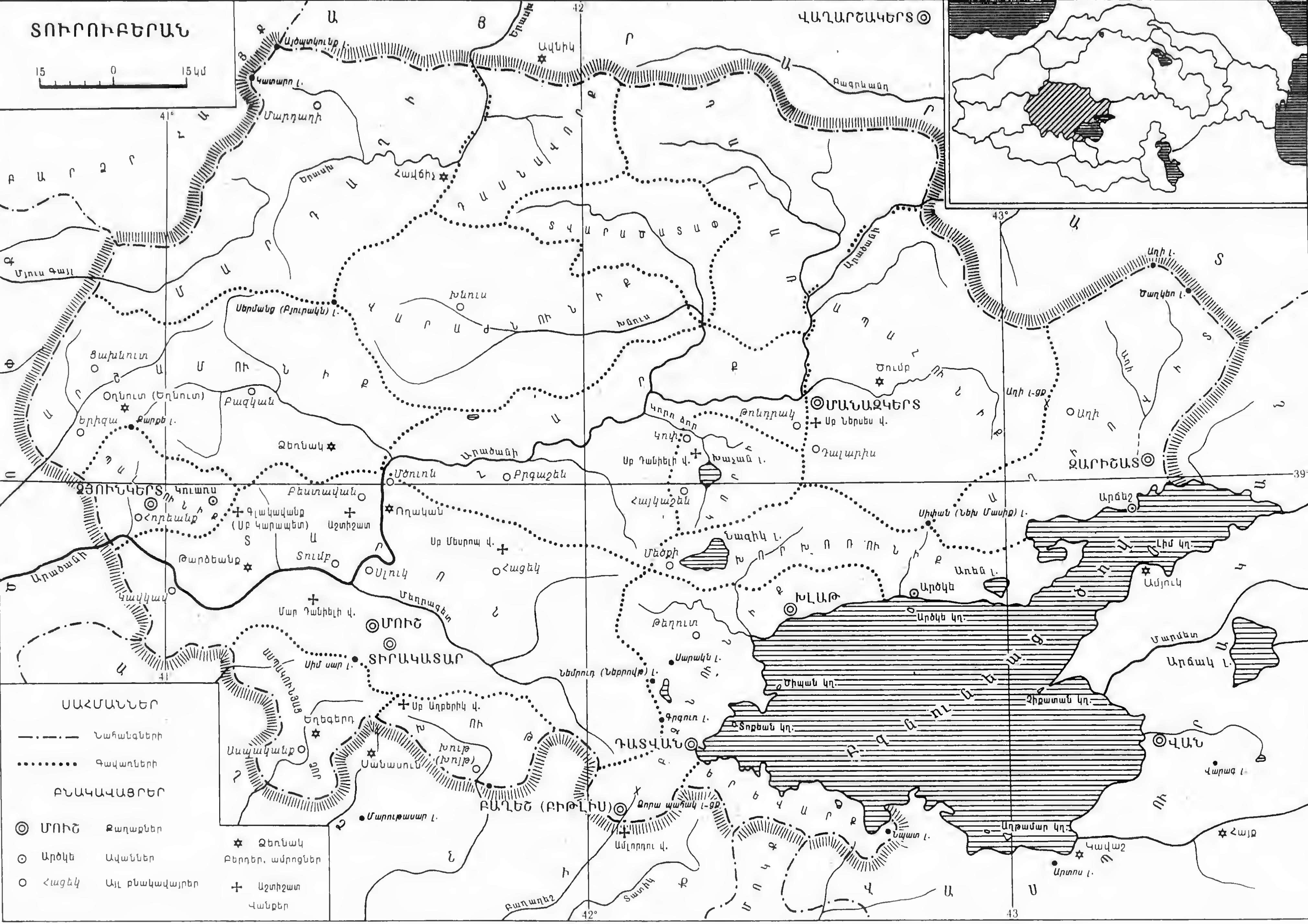 Map of Turuberan - historical Armenian region (in Armenian)